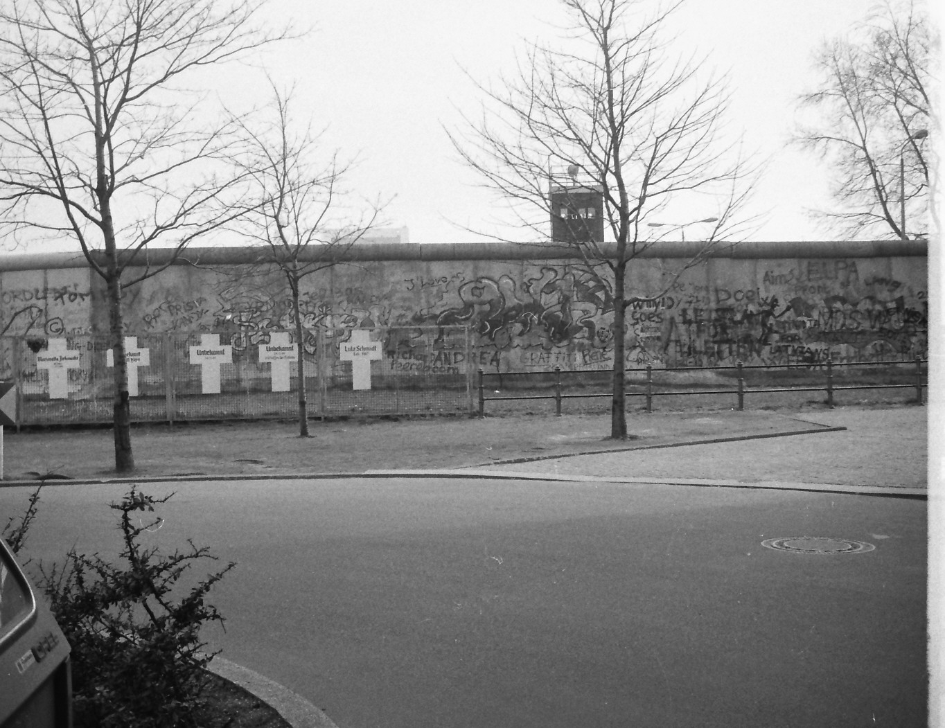 The Wall in Berlin with white crosses on fence